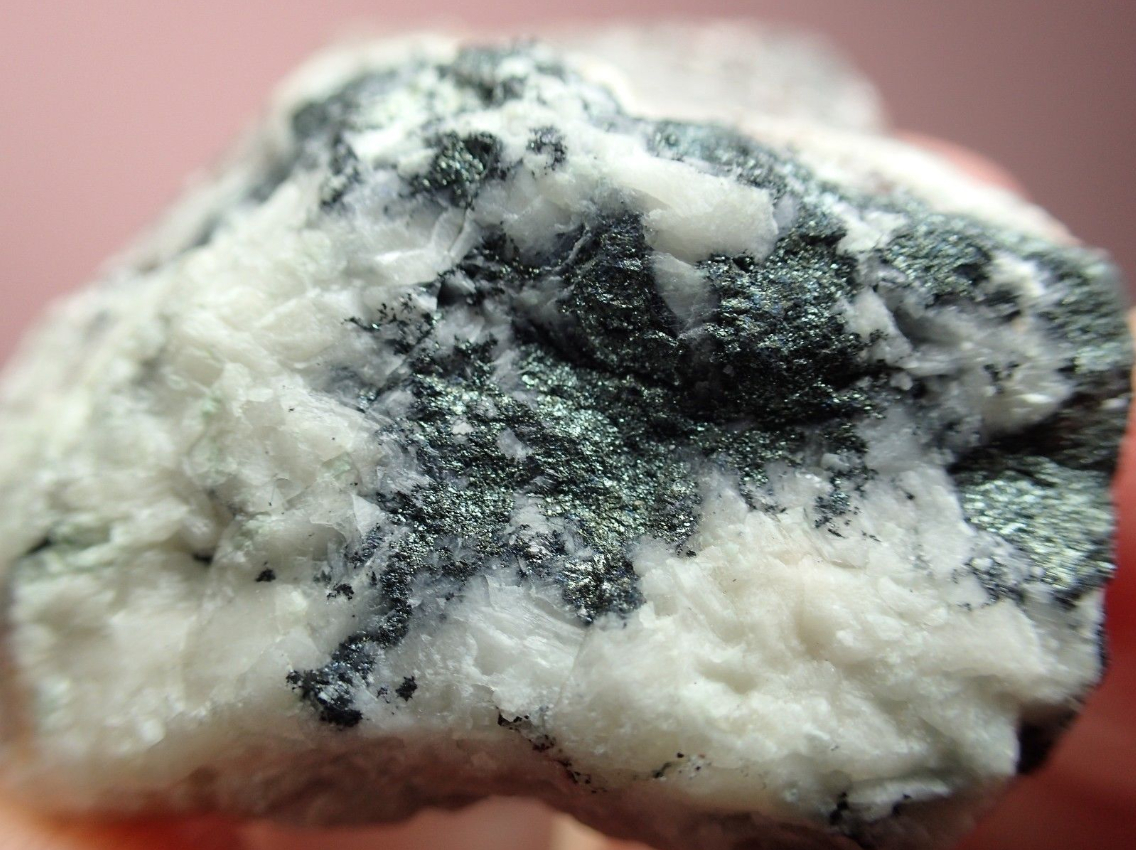 Berzelianite, Dolomite Locality: Bukov Mine, Rožná deposit, Žďár nad Sázavou, Vysočina Region, Moravia (Mähren; Maehren), Czech Republic Dimensions: 50 mm x 43 mm x 32 mm; Weight: 54 g Description: Silvery-bright heyrovskýite crystals in quartz.